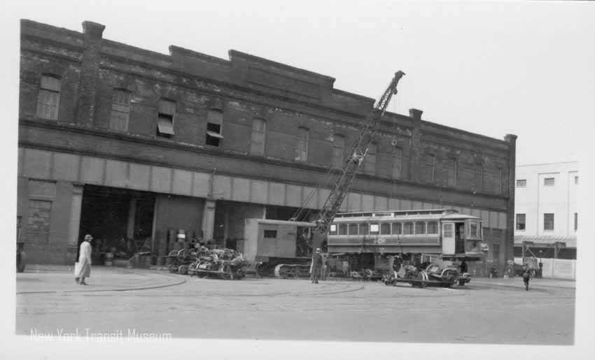 Archival photos of Mother Clara Hale Bus Depot in Harlem. Courtesy: New York Transit Museum